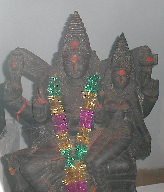 Surendrapuri Temple's Navagraha Temples, Shukra and wife Dwarjaswini